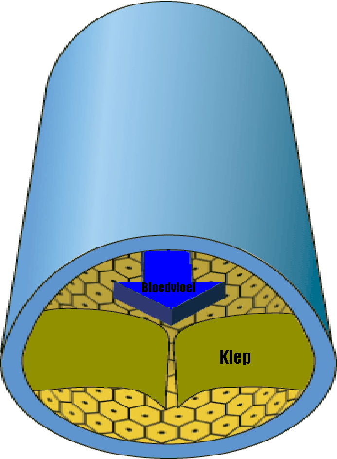 Diagram of a cross section of a vein with valves.